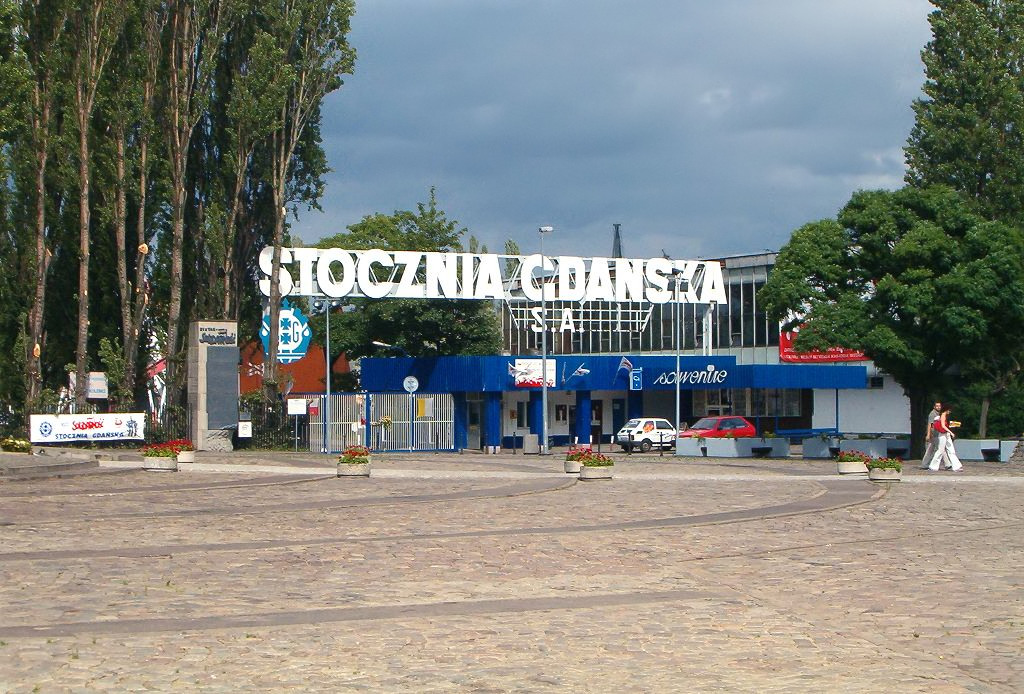 Gdansk Shipyard in Gdansk, Poland.